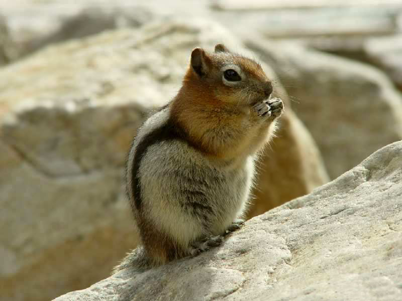 Description Spermophilus lateralis, Golden-mantled Ground Squirrel Date September 05, 2002 Location Lake Louise - Banff National Park - Alberta, Canada Photographer Franco Folini